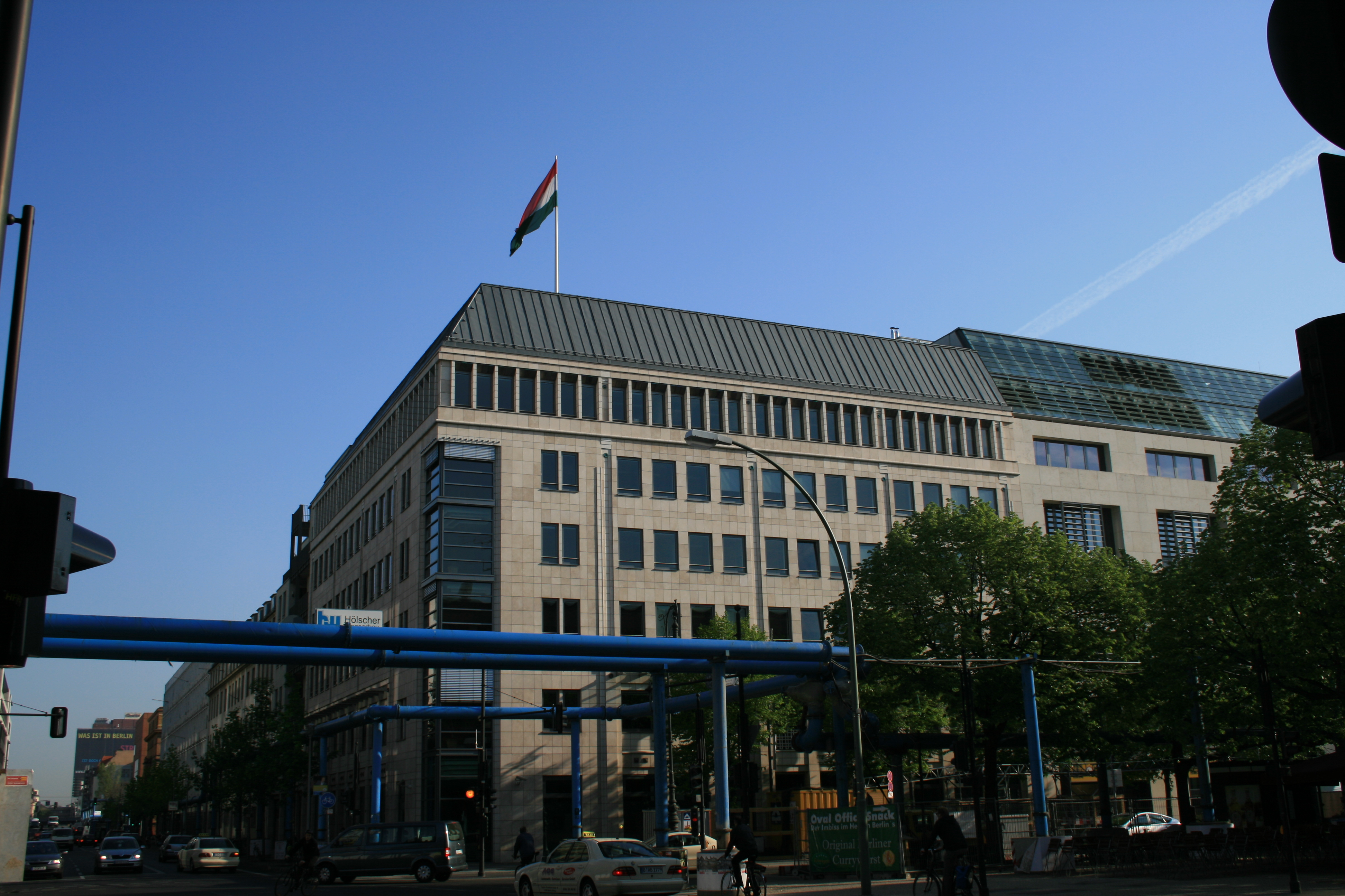 Building of the Embassy of Hungary in Berlin, corner of the Unter den Linden and the Wilhelmstrasse